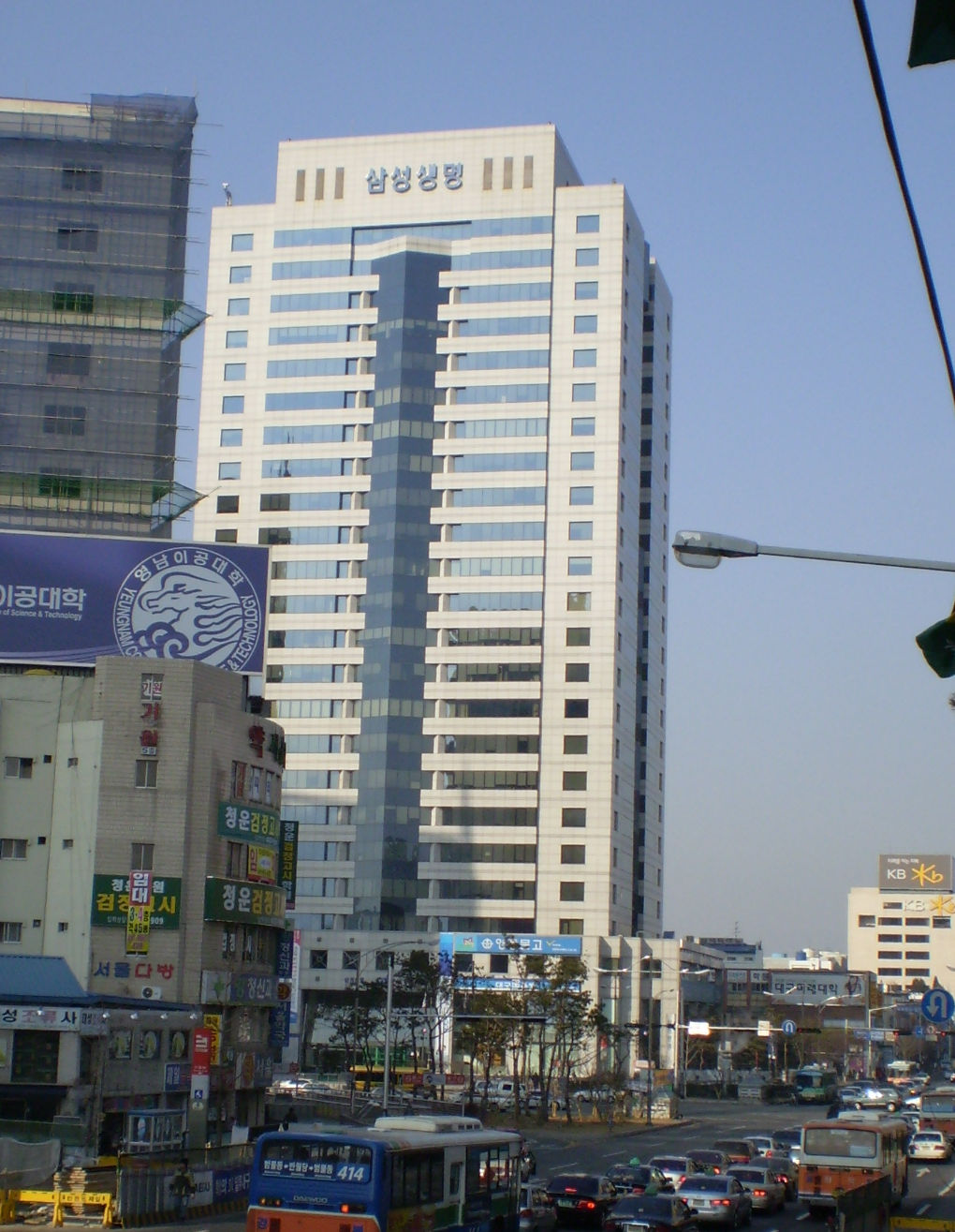 Samsung Insurance building in Daegu, South Korea.